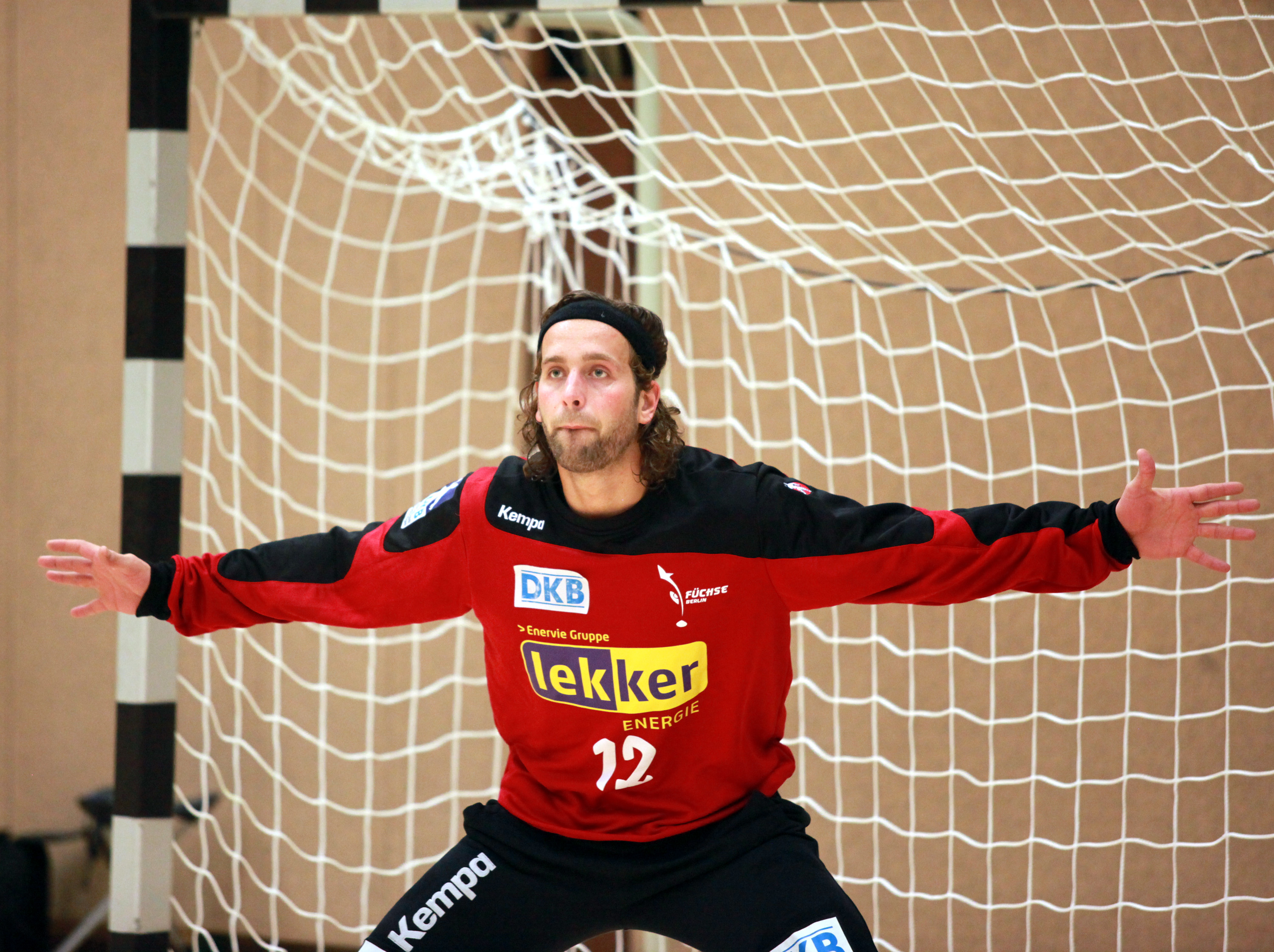 Silvio Heinevetter, on August 18th, 2012 in Ehingen (Germany), during the EVFH-Cup (formerly known as Schlecker Cup).